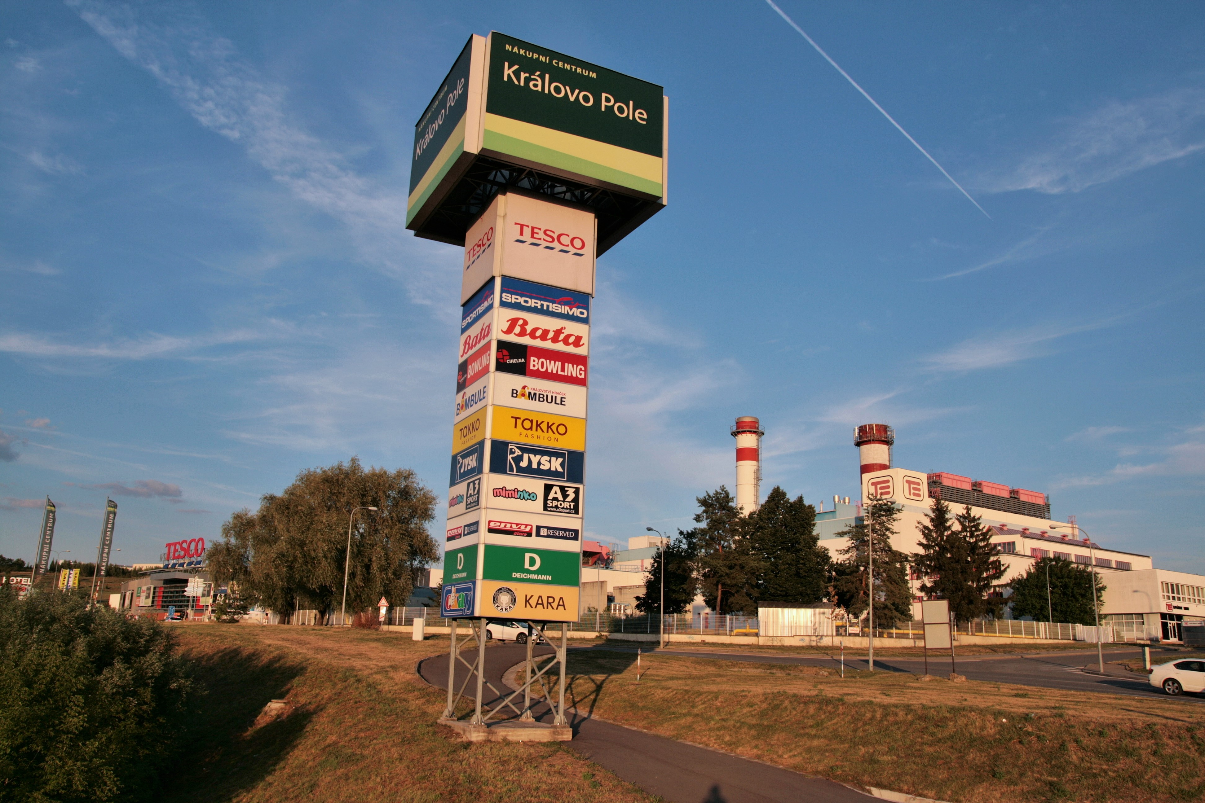 Shopping centre Královo Pole in Brno, Czech Republic.